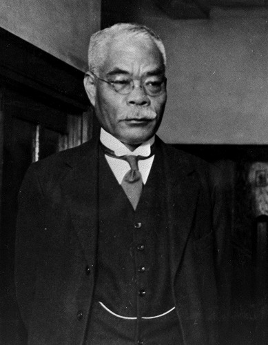 Portrait of Hamaguchi Osachi (濱口雄幸, 1870 – 1931), 27th Prime Minister of Japan (1929 – 1931)